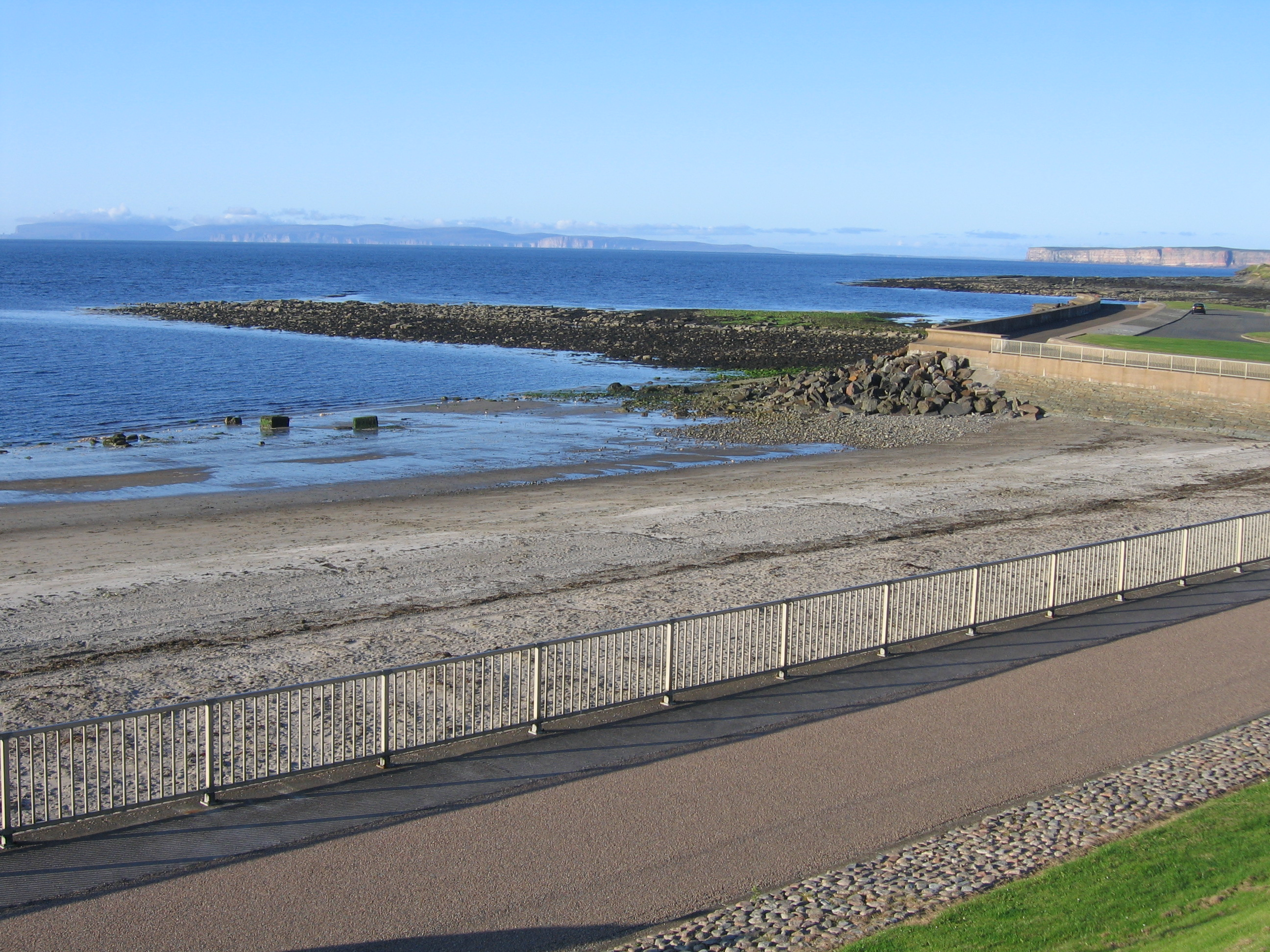 Thurso beach1